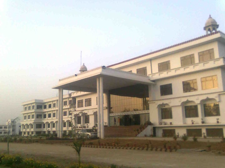 View of Mewar University(in 2009)